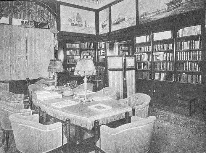 The images of the marine painter Alexander Kircher in the library of an Austrian Archduke